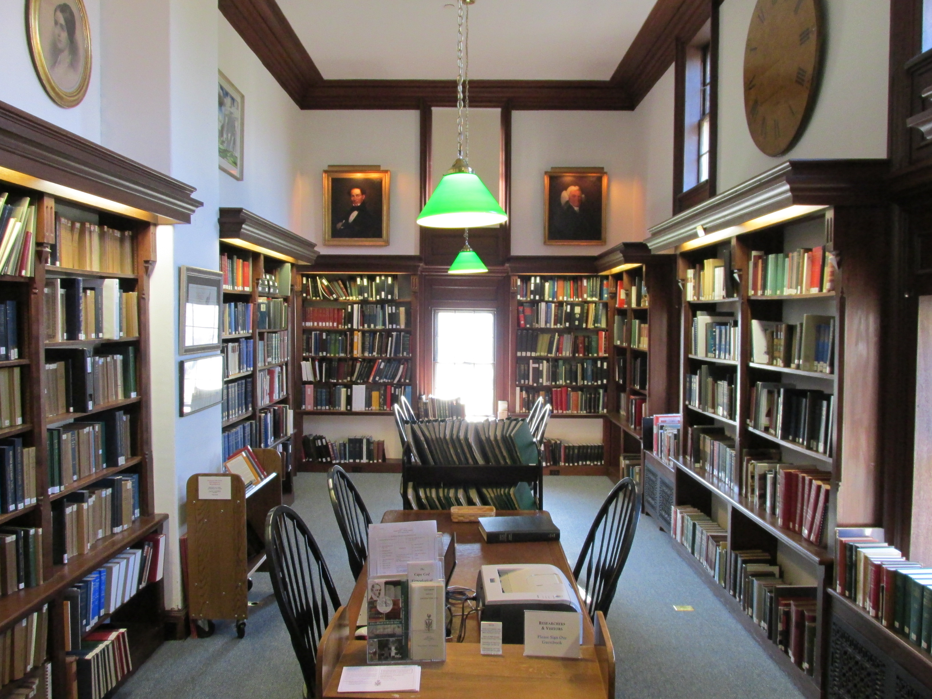 Hooper Room, Sturgis Library, Barnstable Massachusetts